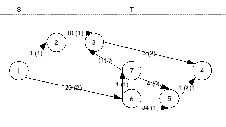 flow cut and residual net